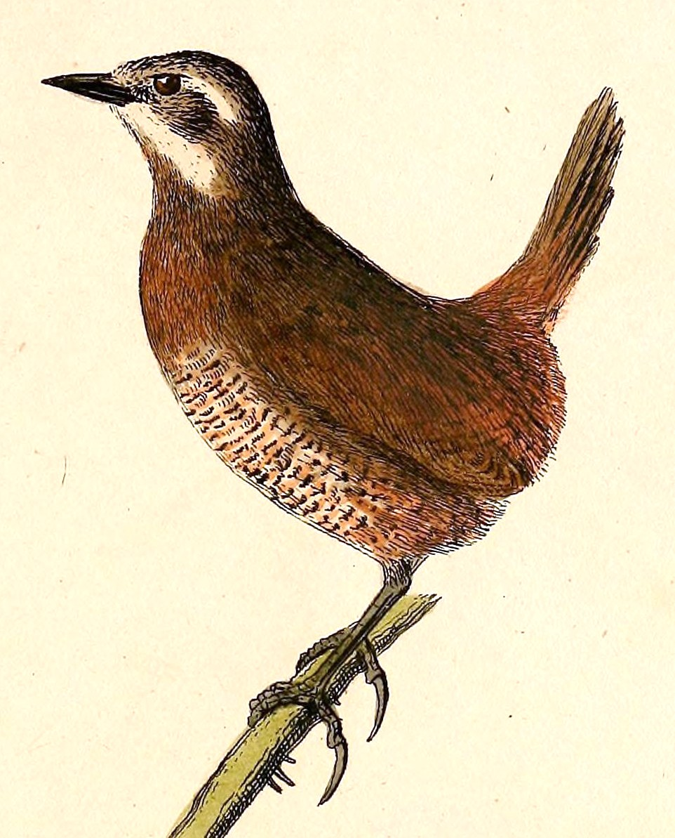 « Pteroptochos megapodius » = Pteroptochos megapodius (Moustached Turca)